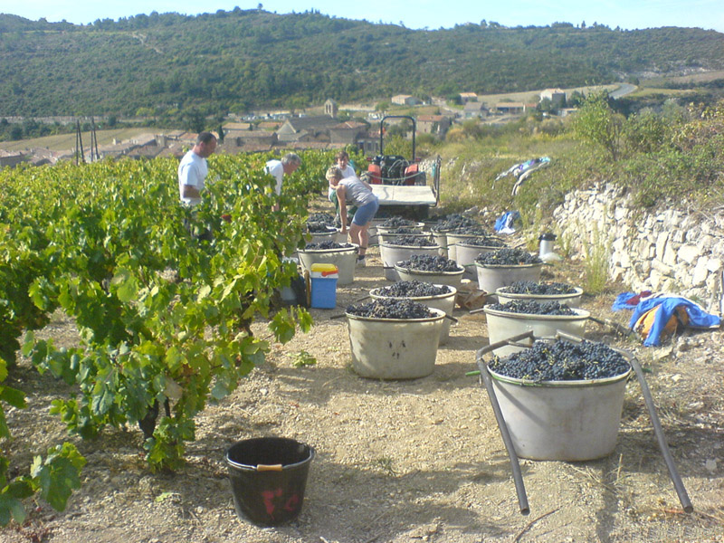 Wine grape harvest in the French wine region of Minervois at the end of the September in Languedoc.